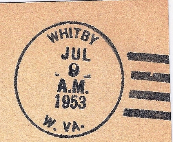 Scanned Post Mark image from Whitby, West Virginia Other information The Post Office No longer exists for this item